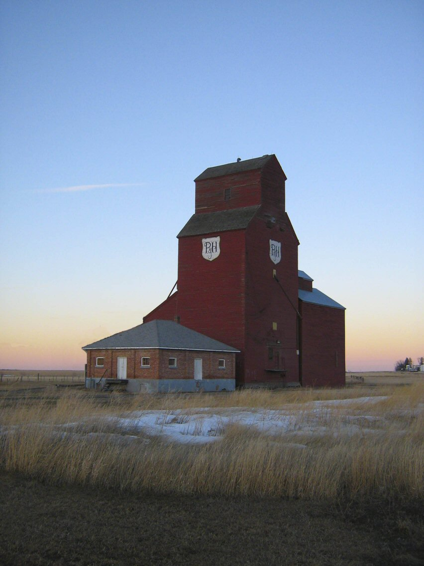 Dust at a grain elevator in Raymond, Alberta, torn down in 2009. Edited with Paint Shop Pro to remove some clutter.